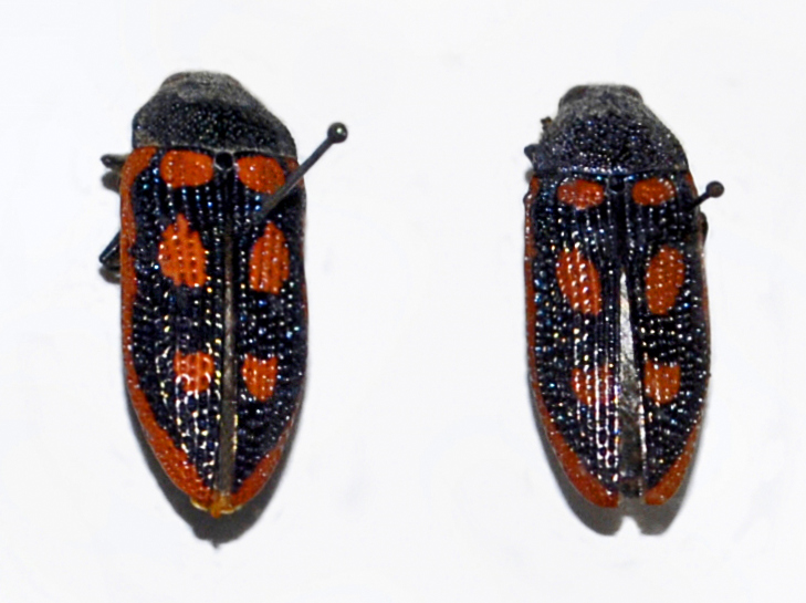 Stigmodera cancellata. Mounted specimen. On display at the Civico Museo di Storia Naturale di Trieste